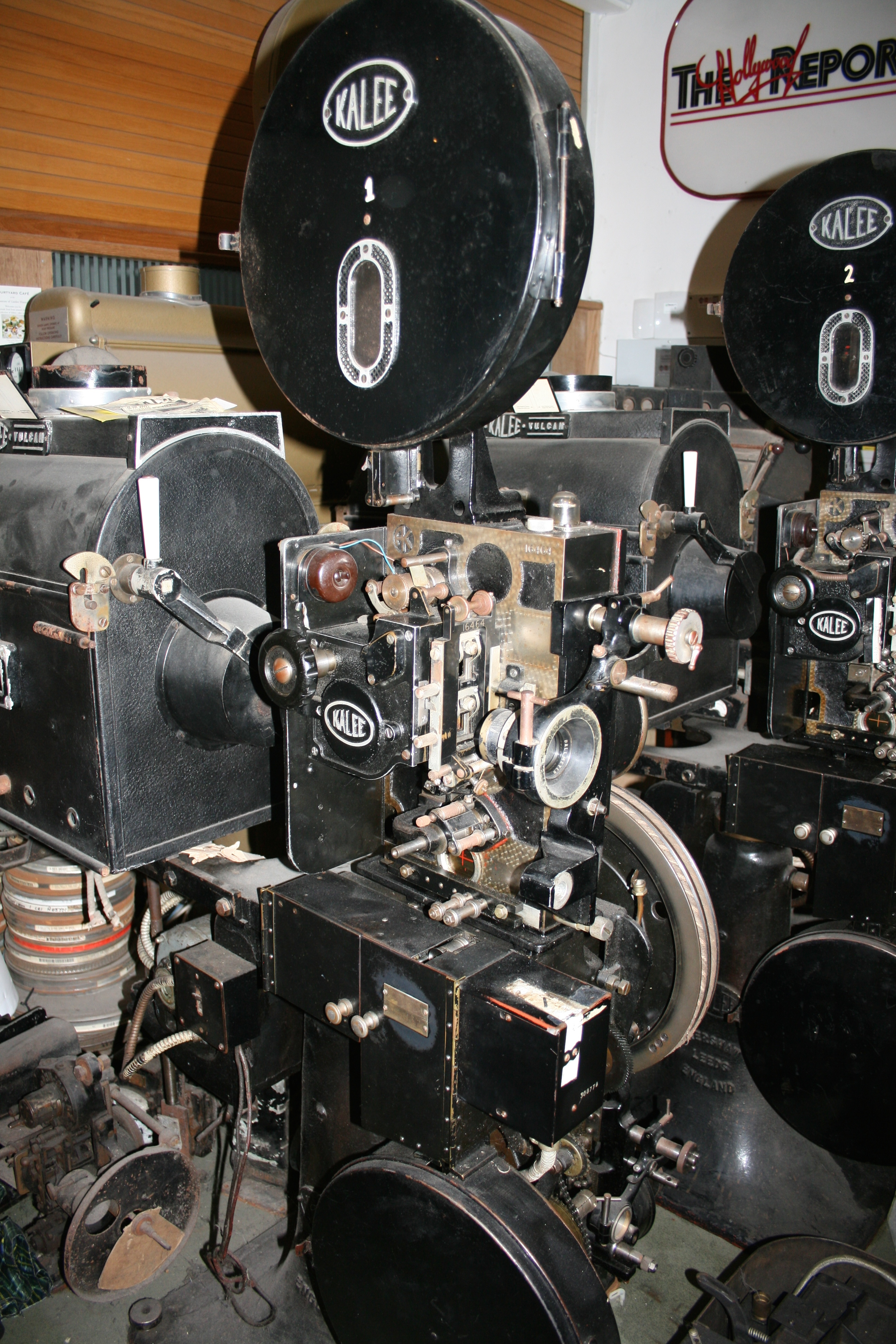 Early 1930's cinema projector